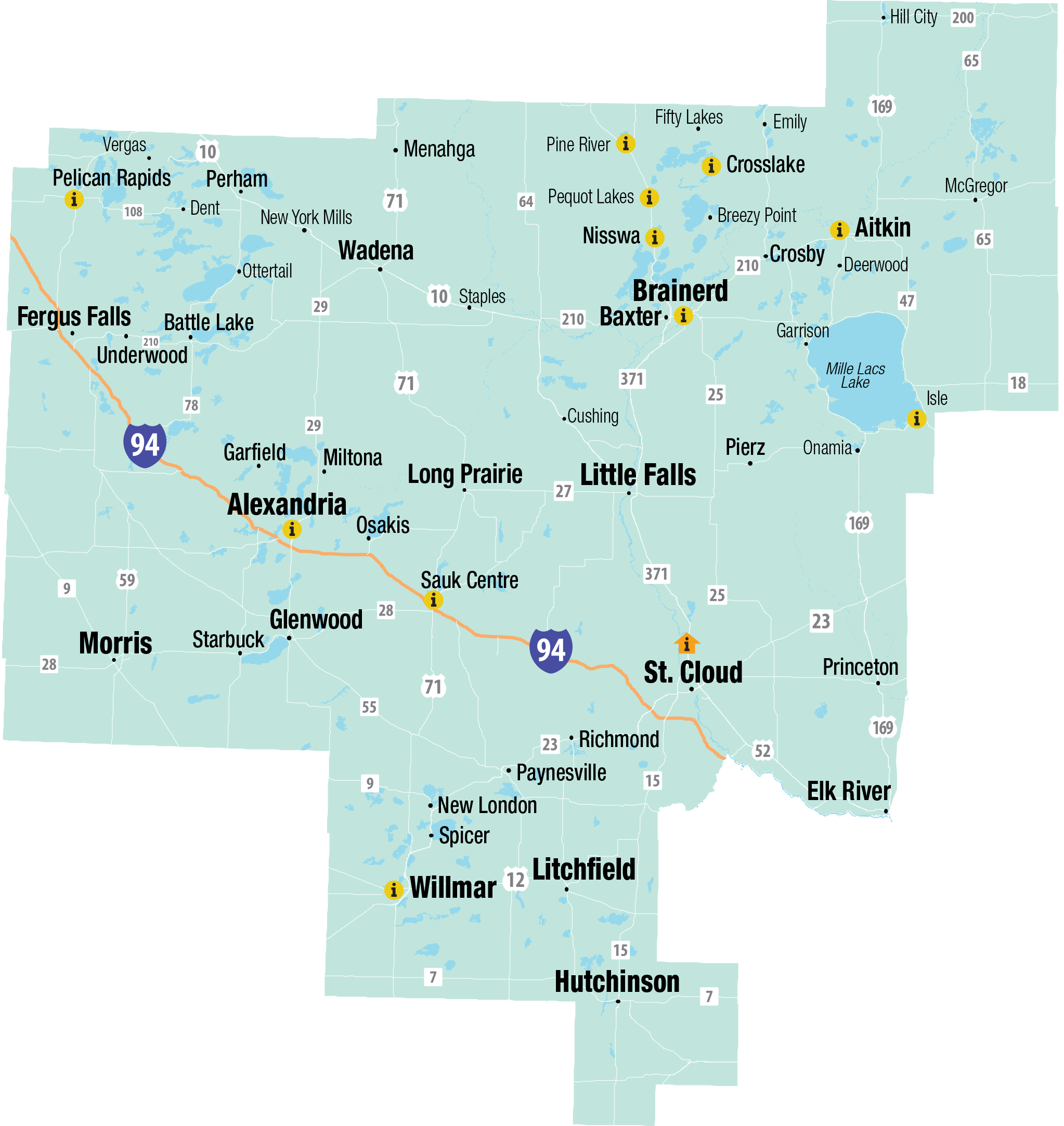 The following map, created by Explore Minnesota, (State of Minnesota) shows the counties which make up the Central Minnesota region.